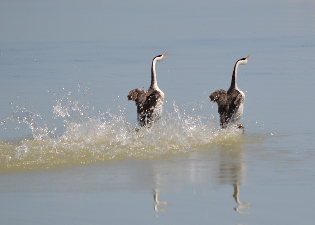 Western Grebes dancing on the water. Entrant in Bear River Refuge 2014 photo contest in Grebes! category. Photo Credit: Jim Barney / USFWS